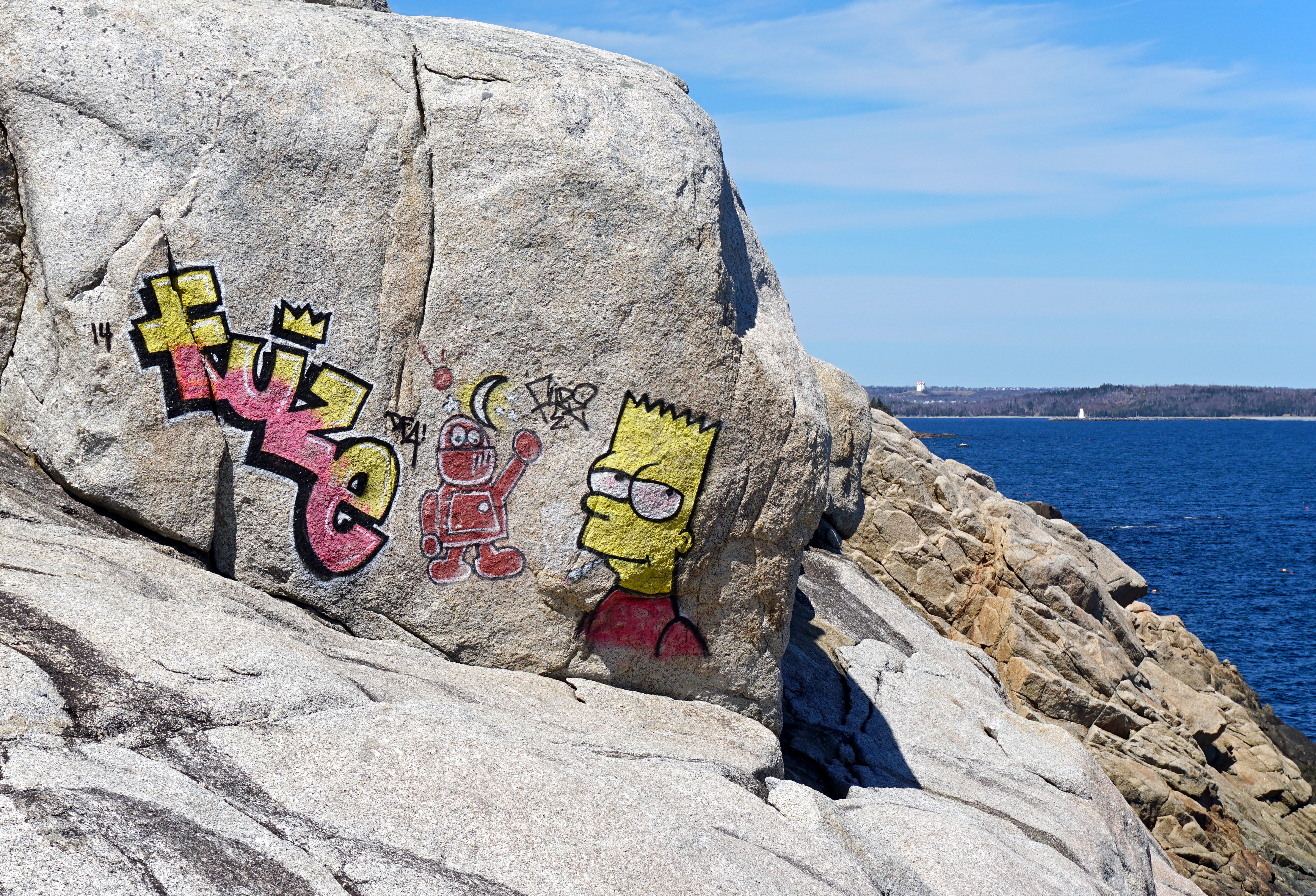 PLEASE, NO invitations or self promotions, THEY WILL BE DELETED. My photos are FREE to use, just give me credit and it would be nice if you let me know, thanks. Saw this on the way back to where we started. I hate graffiti, it is everywhere. It really serves no purpose other than to destroy.............. Herring Cove Provincial Park reserve begins from a parking lot with a great coastal view. This area is actually a reserve and has a 1.5km (1 mi) stretch of coastline to hike on. The views here are as good as anywhere in the province. It is a typical coastal landscape, similar to Peggy’s Cove or Duncan’s Cove, and similar to those areas, there are no maintained trails. A great place to see ships of all types coming and going from Halifax Harbour.